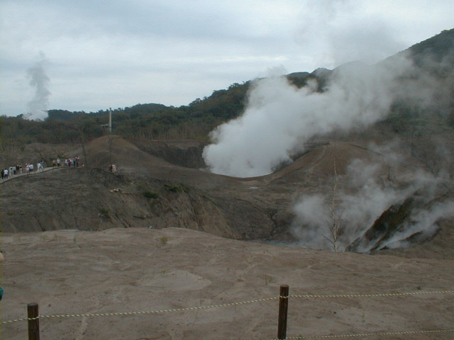 Mount Usu.